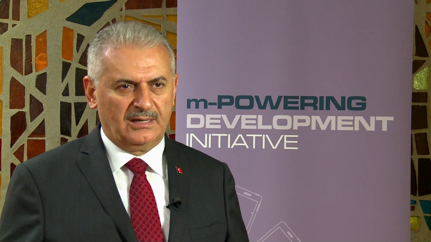 Interview with Turkish politician Binali Yıldırım